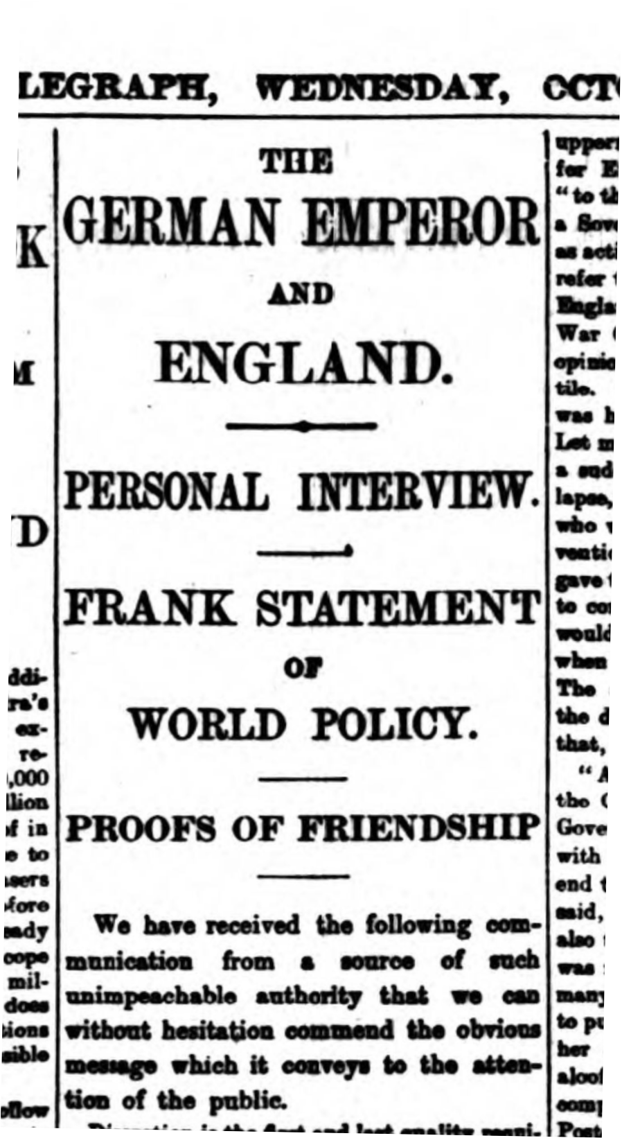 Headline from the first publication of the notorious "interview" with Kaiser Wilhelm in the Daily Telegraph in 1908, leading to the so-called "Daily Telegraph Affair"